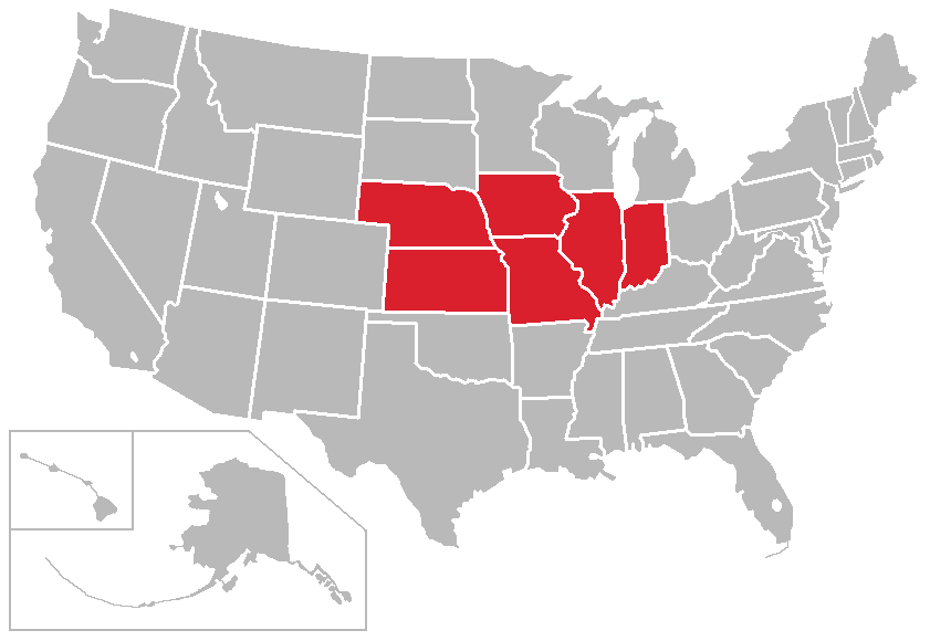 Derived from [1]; map of states with Missouri Valley Conference schools